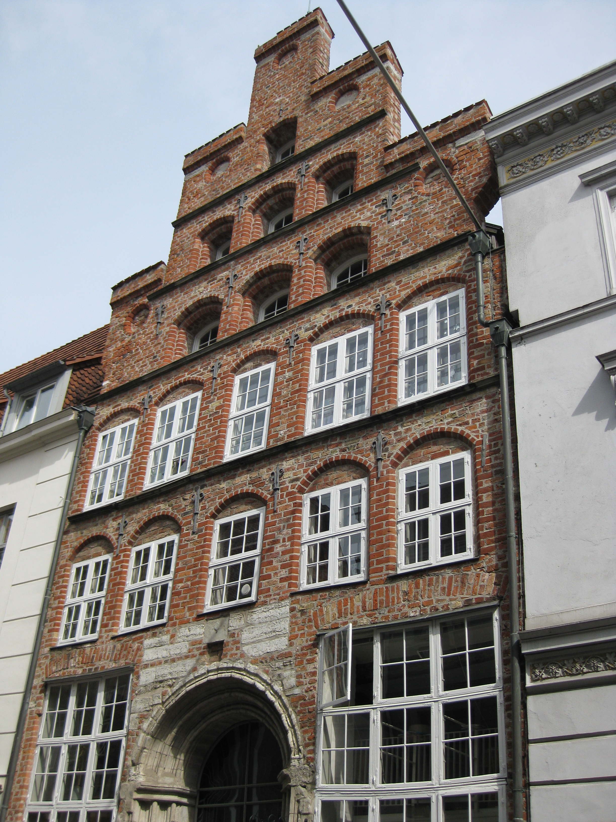 Renaissance building Mengstraße 64 in Lübeck. Shop of the wine traders Carl Tesdorpf.